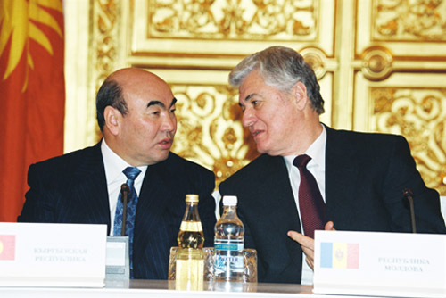 THE GRAND KREMLIN PALACE, MOSCOW. Presidents Askar Akayev of Kyrgyzstan and Vladimir Voronin (right) of Moldova during a news conference given by CIS leaders after their summit.